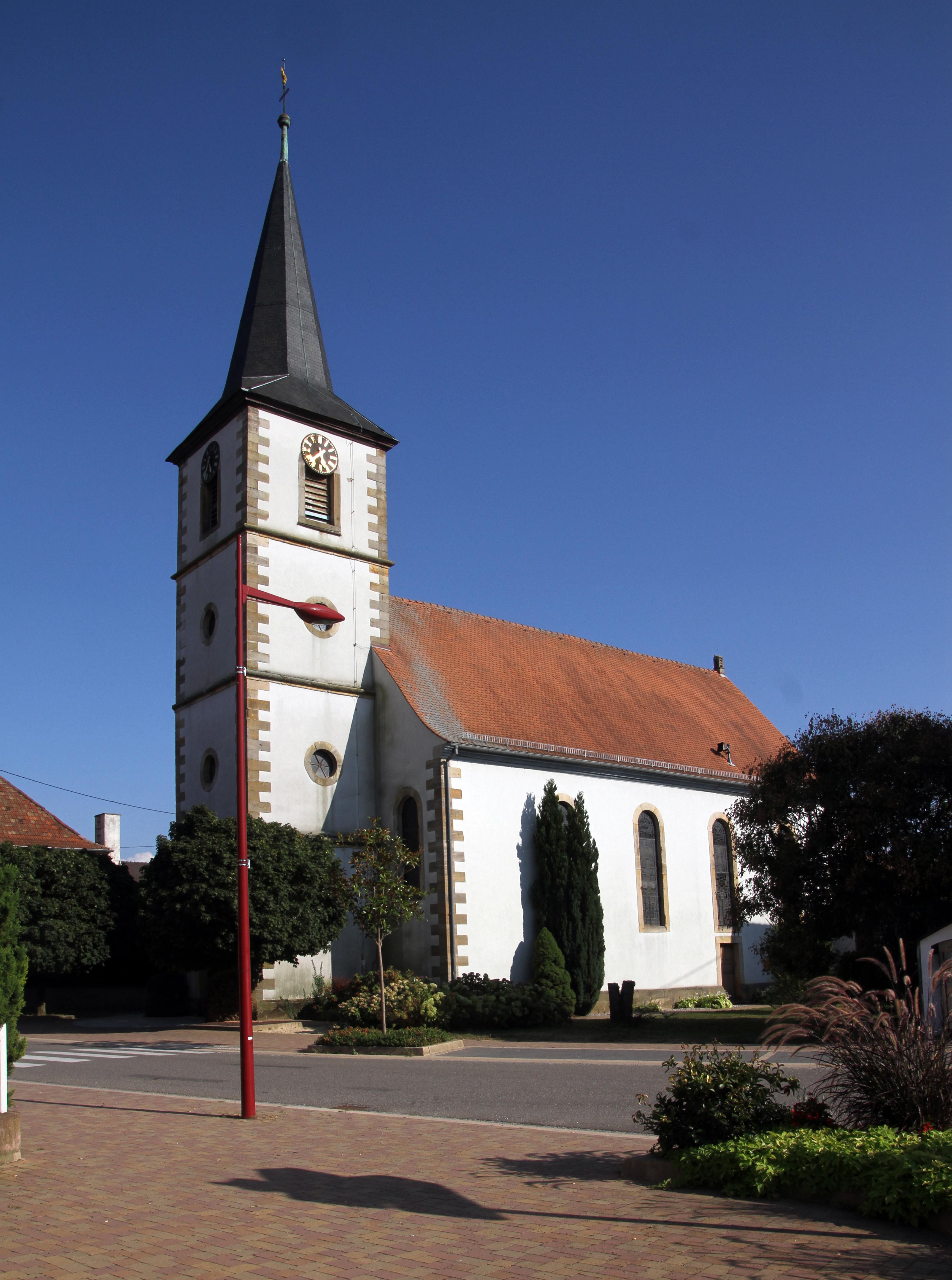 Church of Saint-Jacques-le-Majeur in Niederroedern